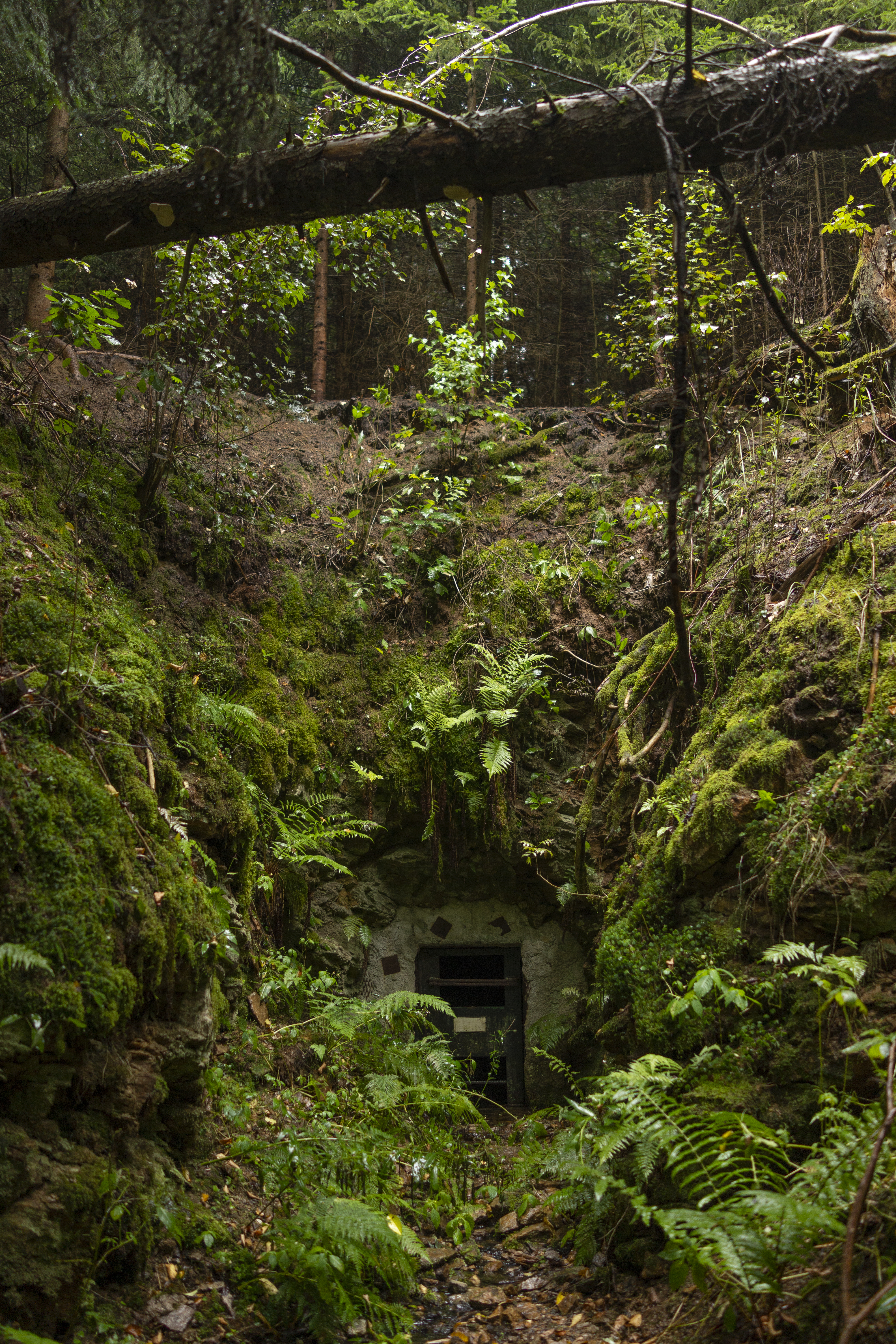 The entrance to the Moric adit near Laby, Czech Republic